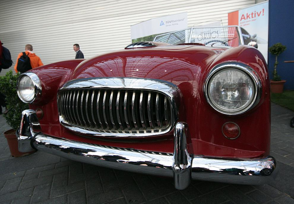 Nash Healey Le Mans Roadster 1951